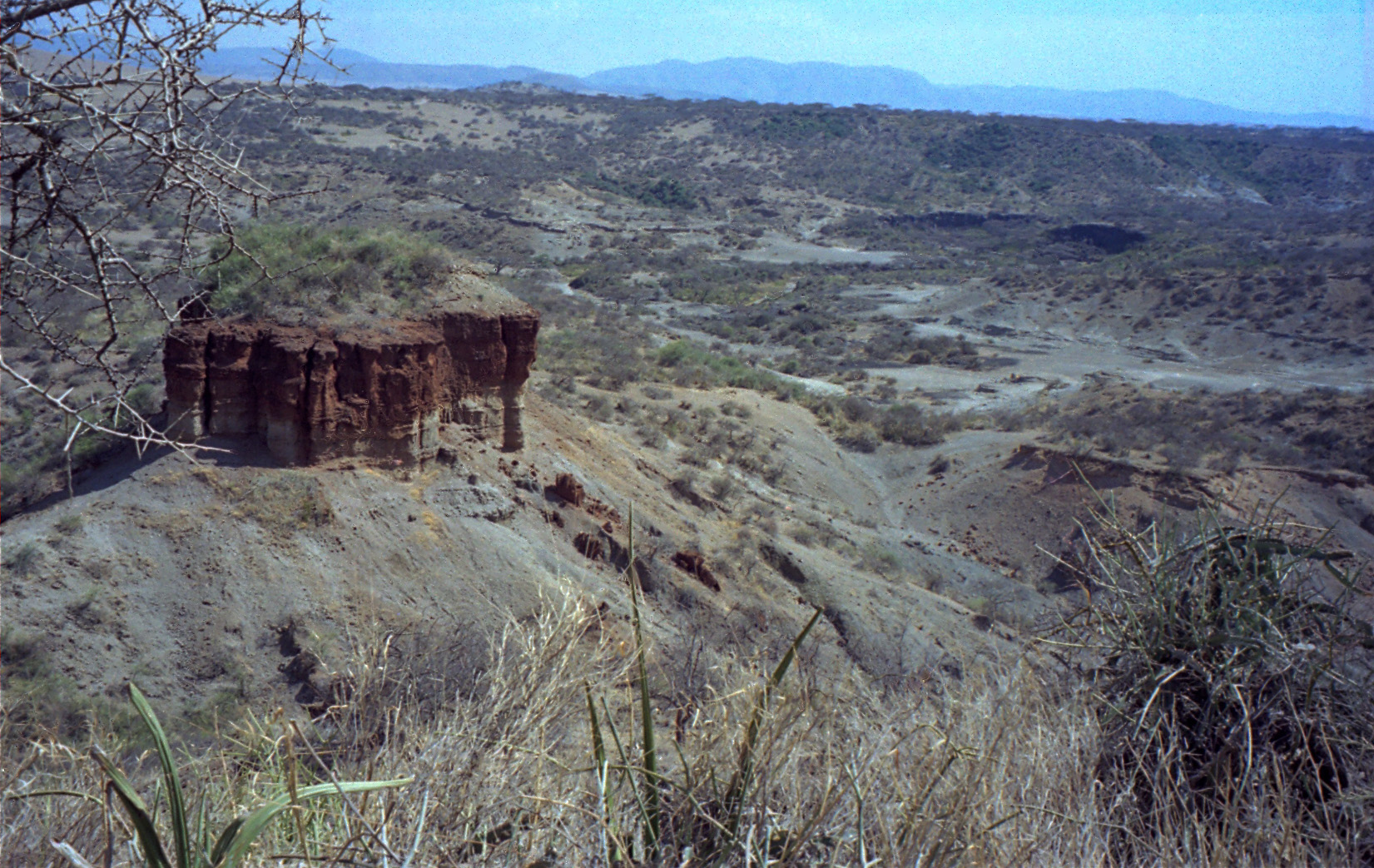 Olduvai Gorge in northern Tanzania where the Leakey's made their discovery of early humans.